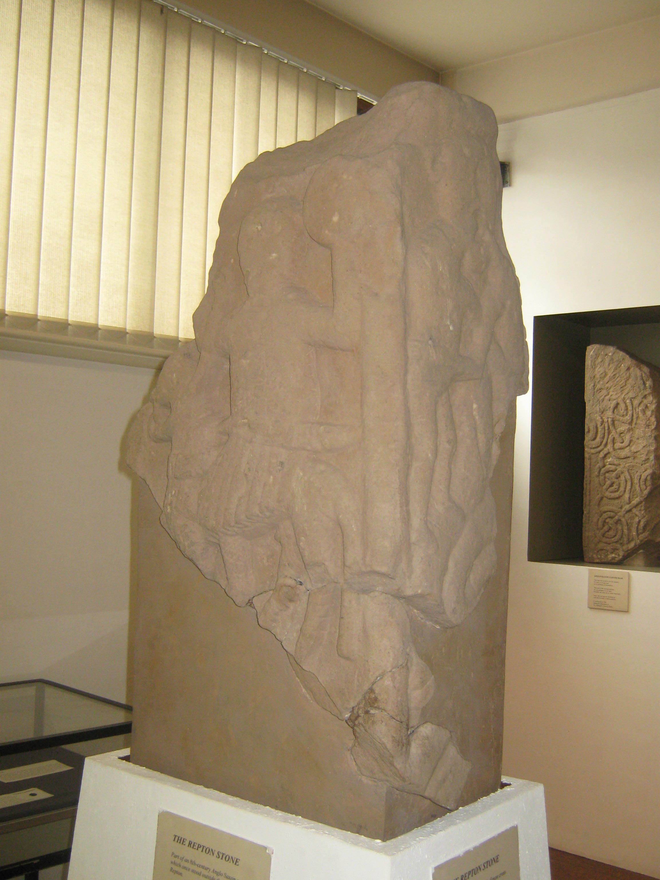 The following is taken from the description kindly left by Derby Museum: The Repton Stone Part of an 8th-century Anglo Saxon cross which once stood outside the church at Repton. This scene represents the mouth of Hell. A monster with a human head and a serpent's body devours two human figures . They are dressed in knee-length breeches with cross-gartered legs.